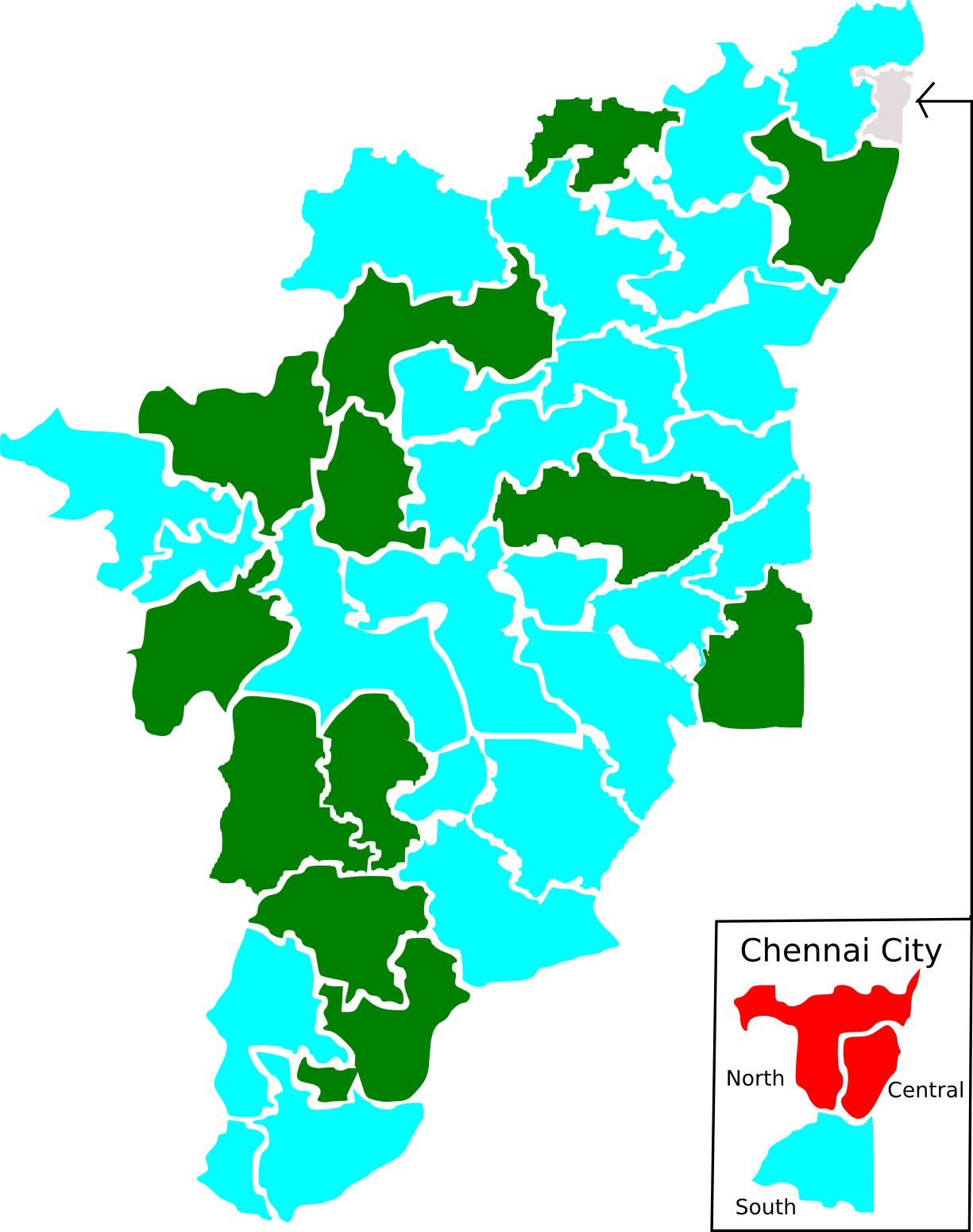 1984 Lok Sabha Election map for Tamil Nadu. Map is based on ECI drawn map. Results are based on ECI website.